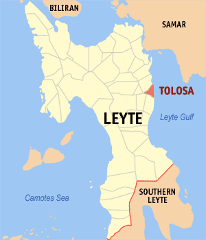 Map of Leyte showing the location of Tolosa